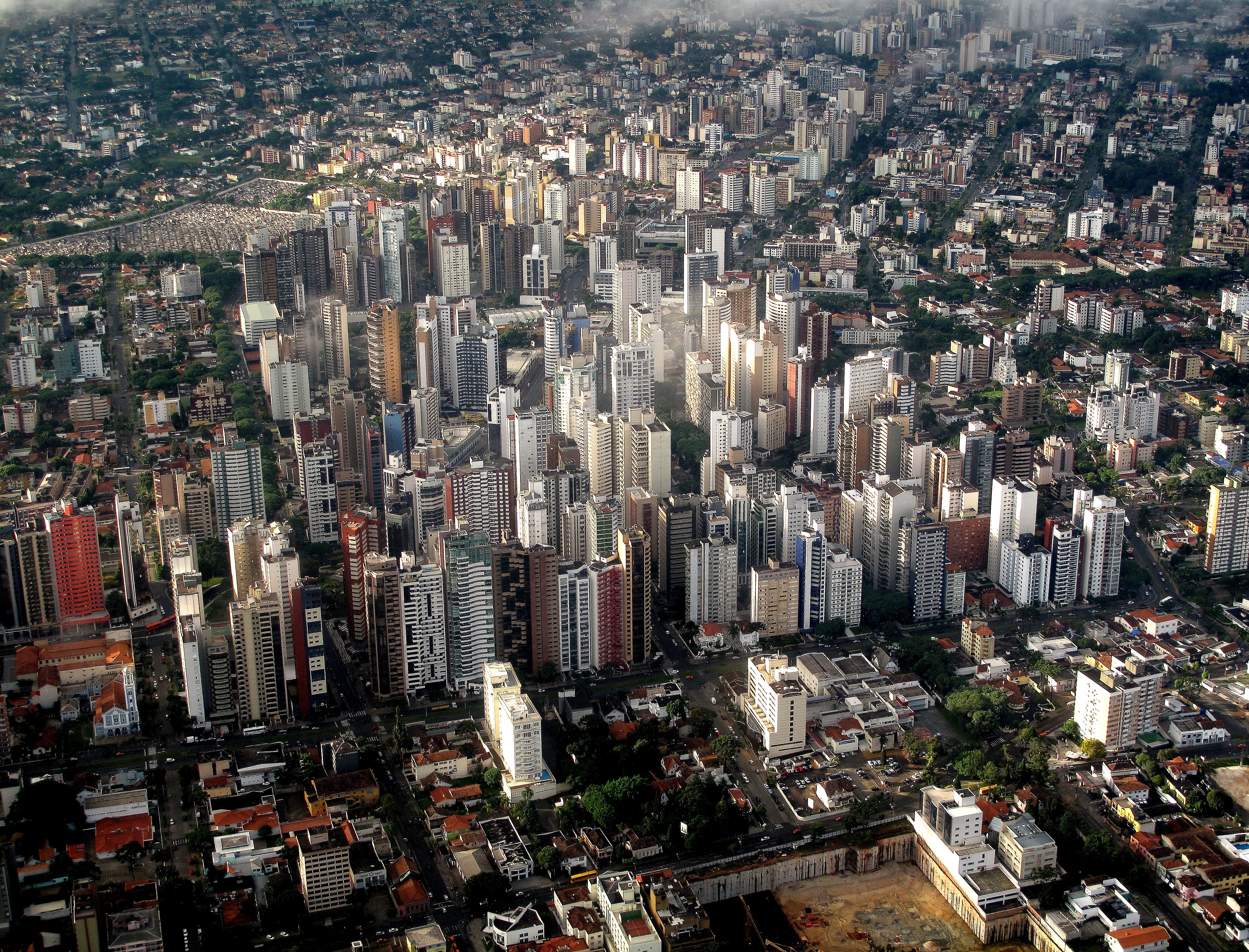 Downtown Curitiba